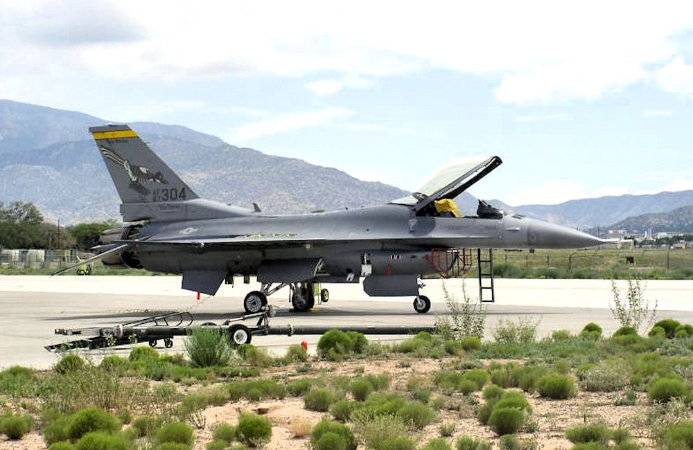 USAF F-16C block 30 #87-0304 from the 188th FS is parked on the tarmac with engine work being performed. [USAF photo] Aircraft with 121st Fighter Squadron, DC ANG as of July 2011.